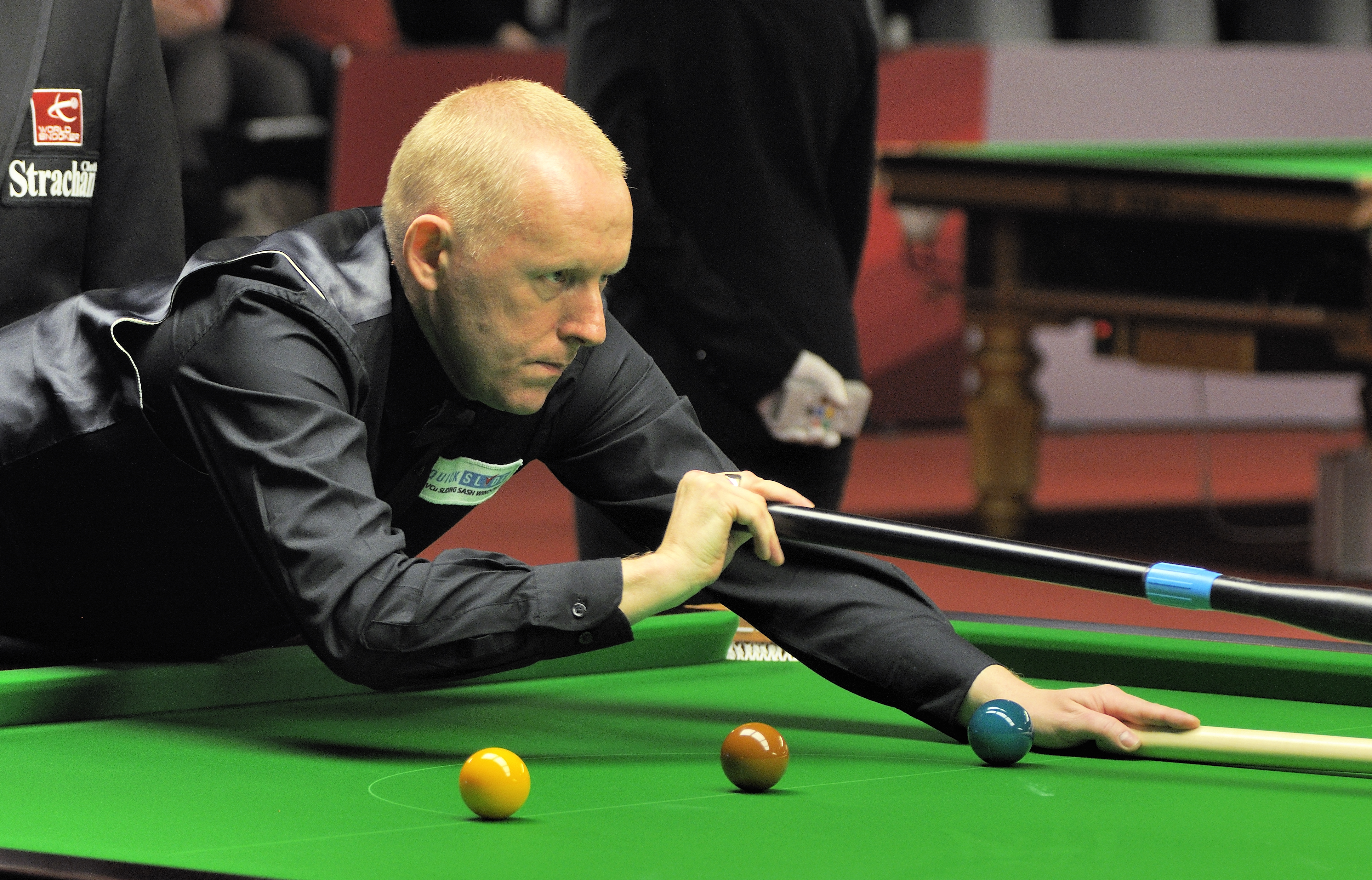 Picture taken in Berlin during the Snooker German Masters in 2014. Paul Davison.